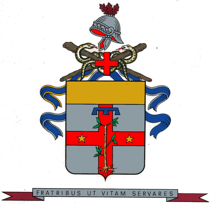 Coat of Arms of the Medical Corps (year 1974); Italian Army.